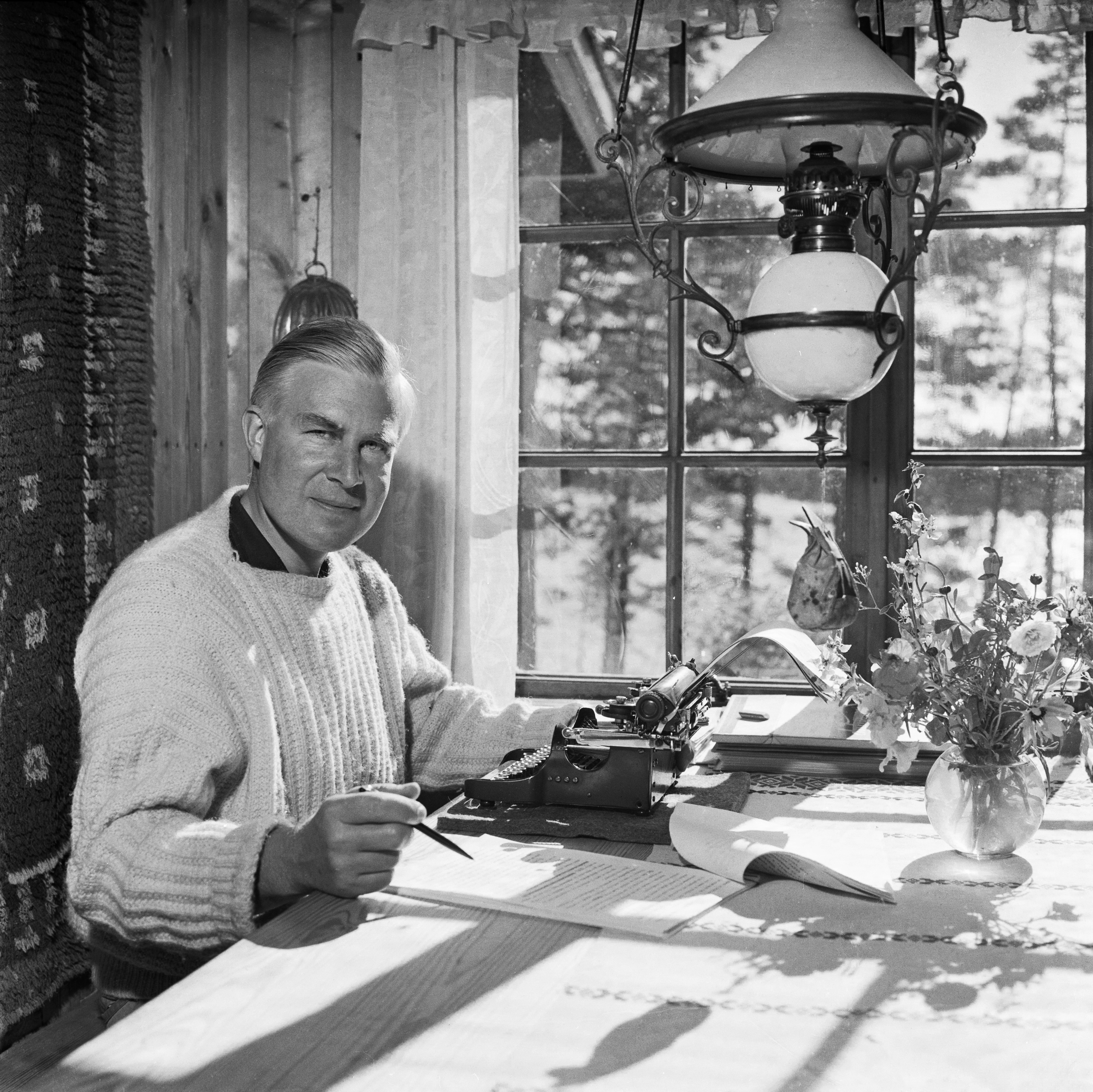 Photograph of the Finnish philosopher G. H. von Wright at his summer estate in Ingå (Inkoo), on Vålö island.